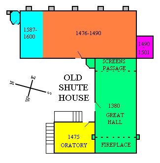 Plan of Old Shute House, Devon, based on architectural chronology of Bridie, M.F., The Story of Shute, Axminster, 1955., p.21; orientation incorrect per p.21: "Original manor house facing almost due west", should be North, front door faces about 345 degrees